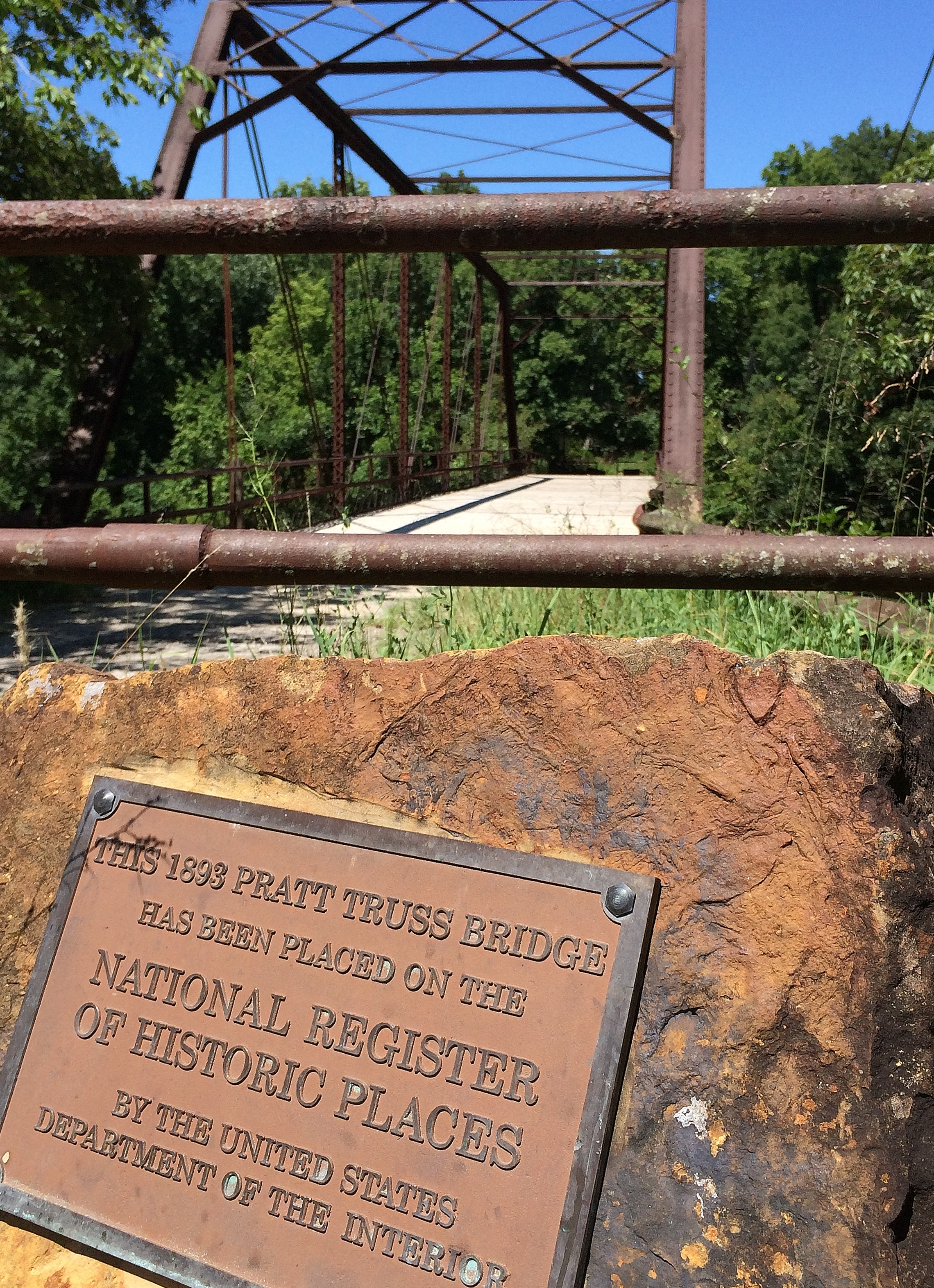 Elk Falls Pratt Truss Bridge Co-historian Bruce Hadley.